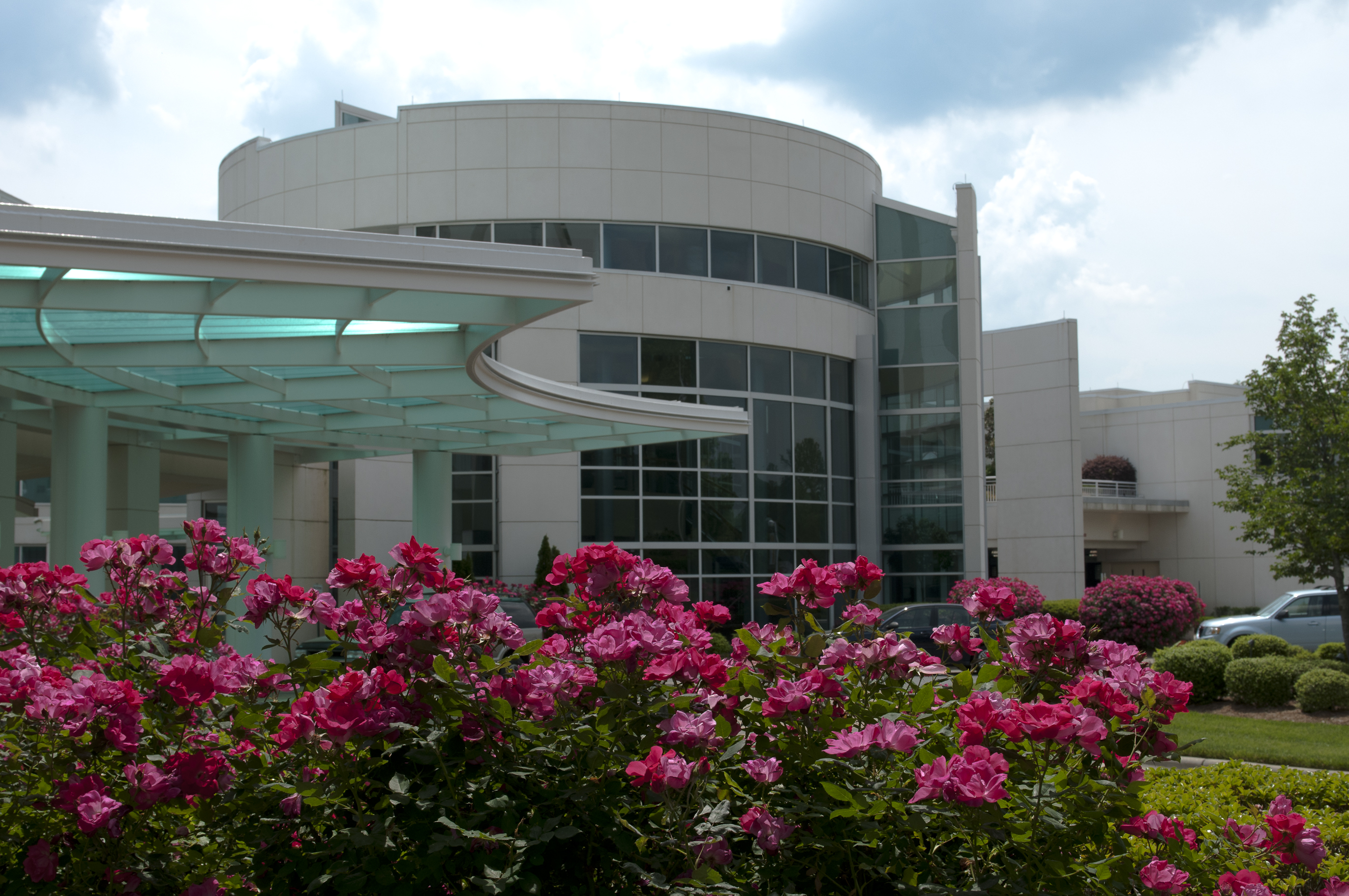 CaroMont Health Gaston Memorial Hospital